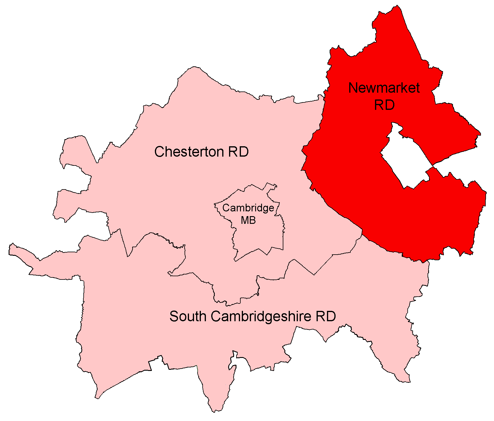 Newmarket Rural District, shown within the administrative county of Cambridgeshire. All boundaries shown are correct for the period between 1934 and 1965. Newmarket RD itself remained unchanged until abolition in 1974.